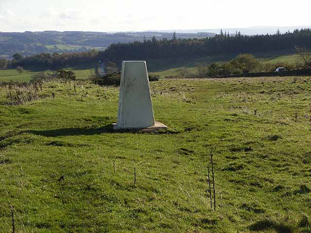 Trig pillar at Limestone Corner Trig pillar at an old quarry on Hadrians Wall National Trail which runs 135 km from Bowness-on-Solway to Wallsend The post-Roman Military Road, B6318 Greenhead to Chollerford road can be seen beyond.